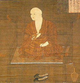 Kobo Daishi, Taisanji, Matsuyama, Ehime, Japan